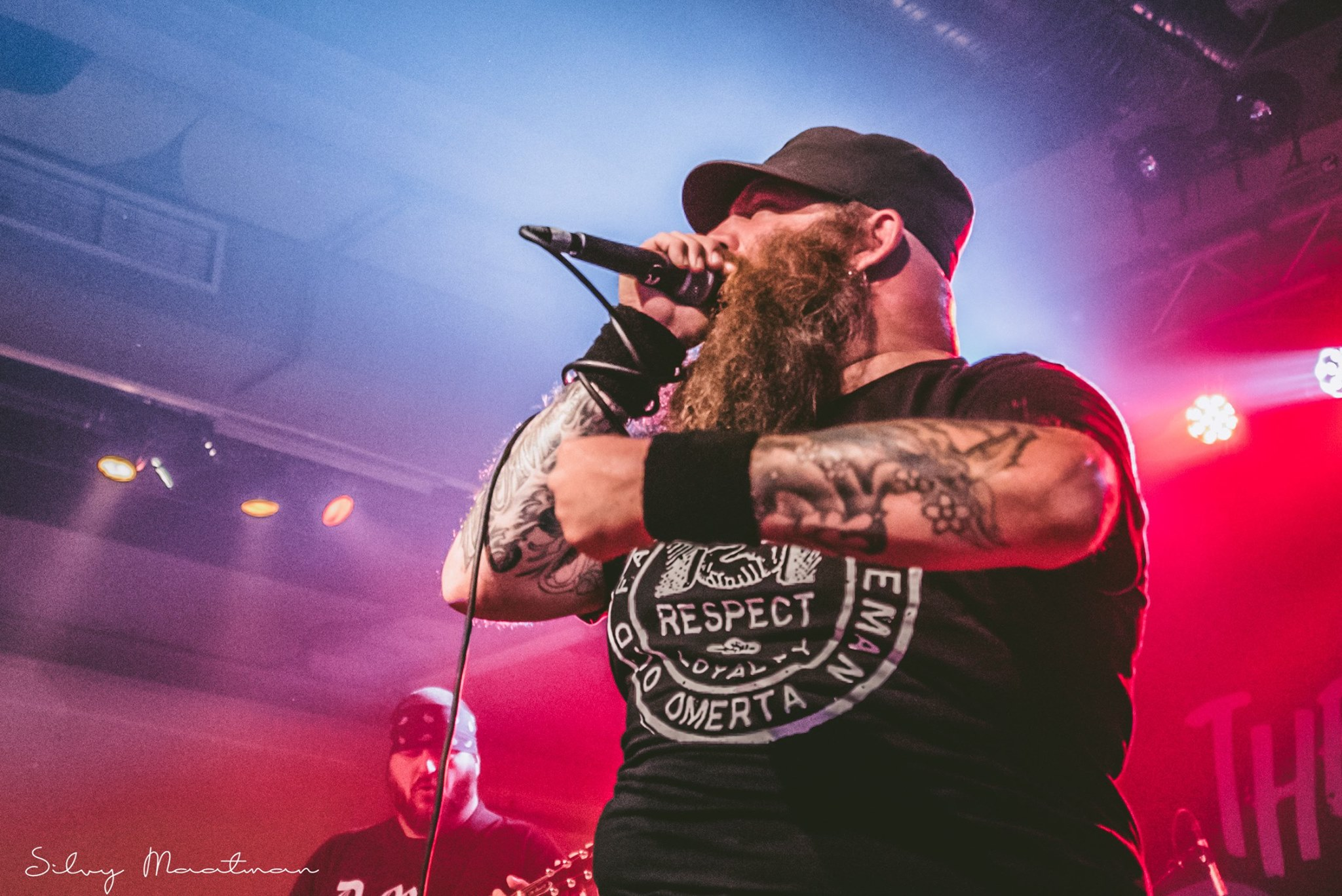 Brick By Brick performing at Sound Of Revolution